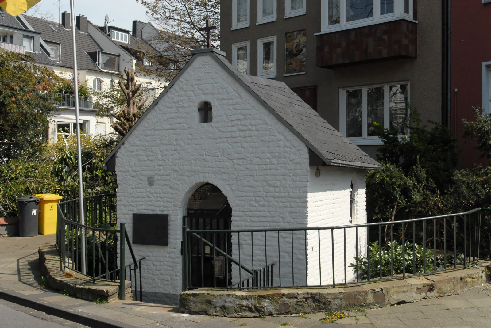 Heiligenhäuschen in Düsseldorf-Oberkassel, Germany This is a photograph of an architectural monument.